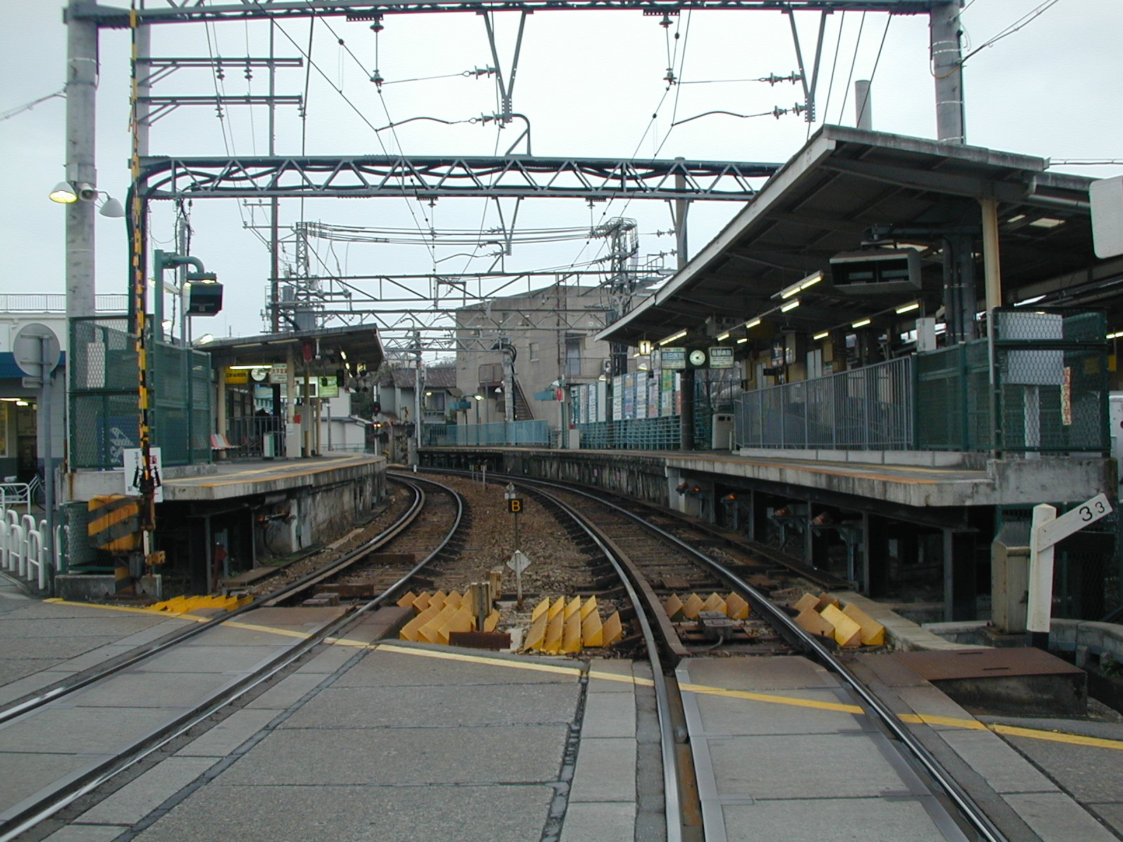 Kobe Electric Railway Miki Station platform